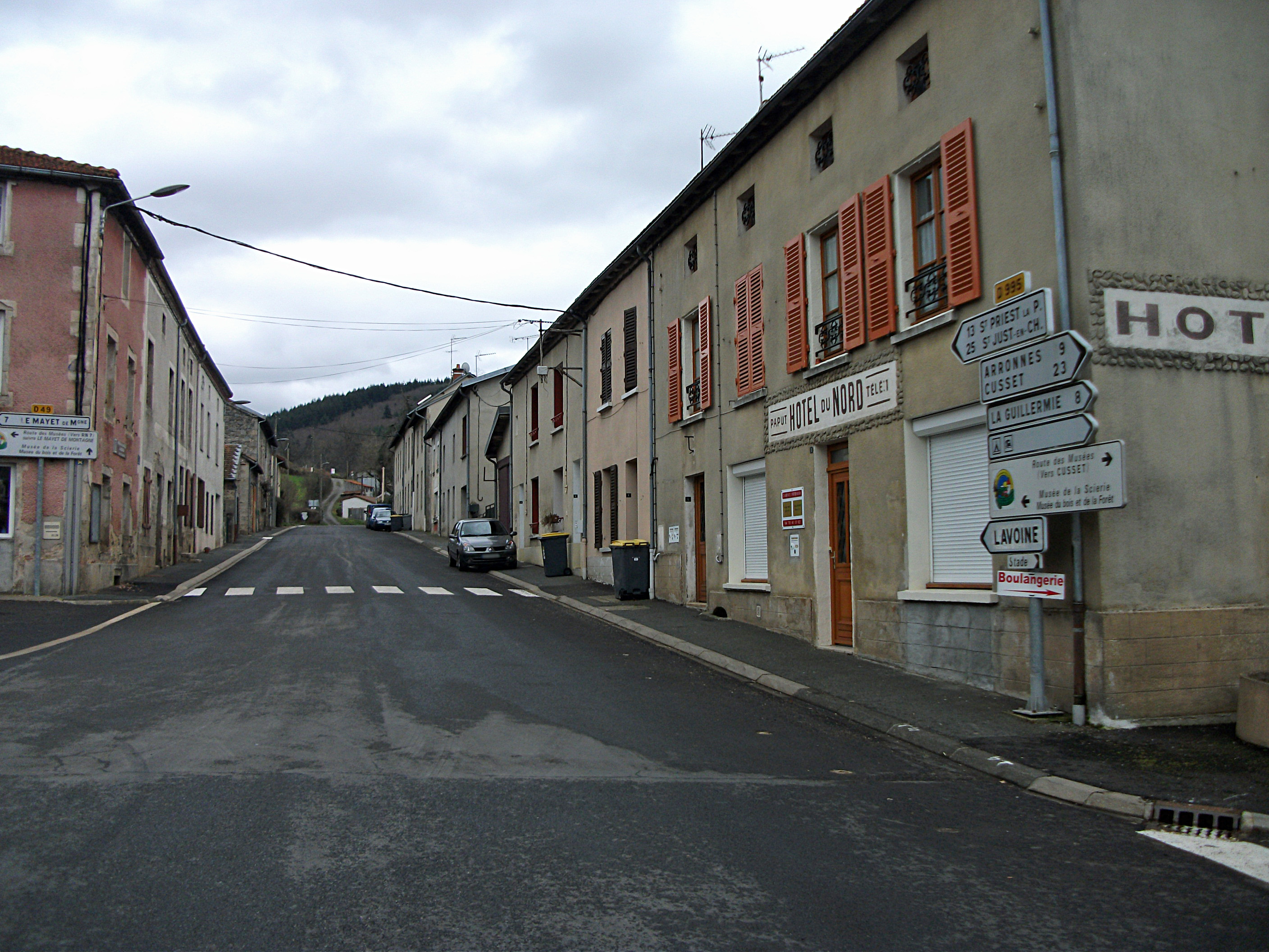 Departmental road 995, in Ferrières-sur-Sichon (Allier), direction Saint-Just-en-Chevalet - elevation 556 m (1,824 ft) [9951]